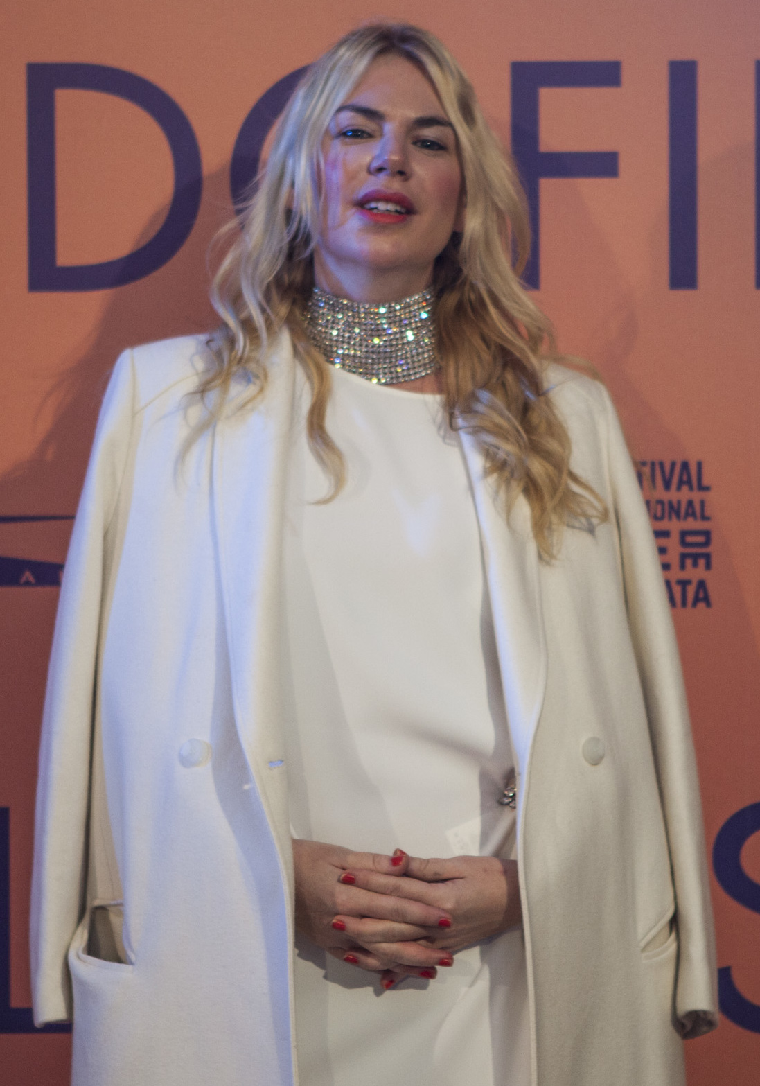 Esmeralda Mitre at the opening of Mar del Plata Film Festival 2018.